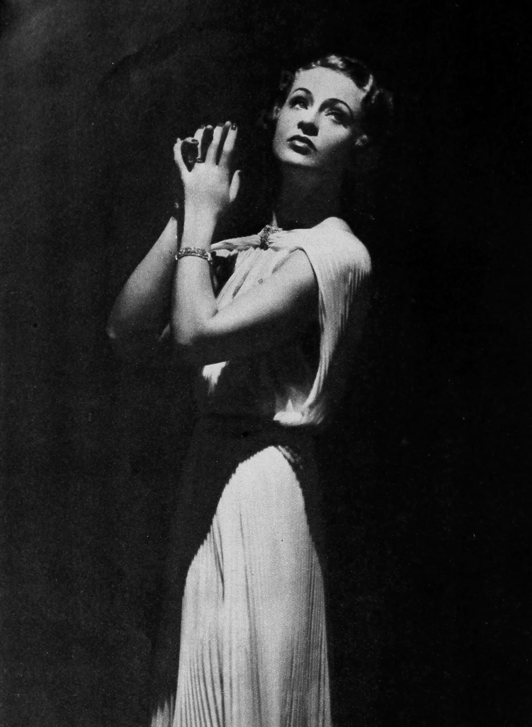 Portrait of Ethel Shutta. Cropped because there was text on the lower part of the image.